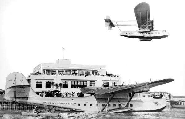 Local call number: rc03578 Title: [Dinner Key seaplane base: Miami, Florida] Physical descrip: 1 photoprint: b&w; 8 x 10 in. General note: From Dinner Key in 1930, Pan American inaugurated flying boat service to Latin America. PAA sold Dinner Key to the City of Miami in 1946. Date captured: After 1930. Corporate subject: Pan American World Airways, Inc. Repository: State Library and Archives of Florida, 500 S. Bronough St., Tallahassee, FL 32399-0250 USA. Contact: 850.245.6700. Persistent URL